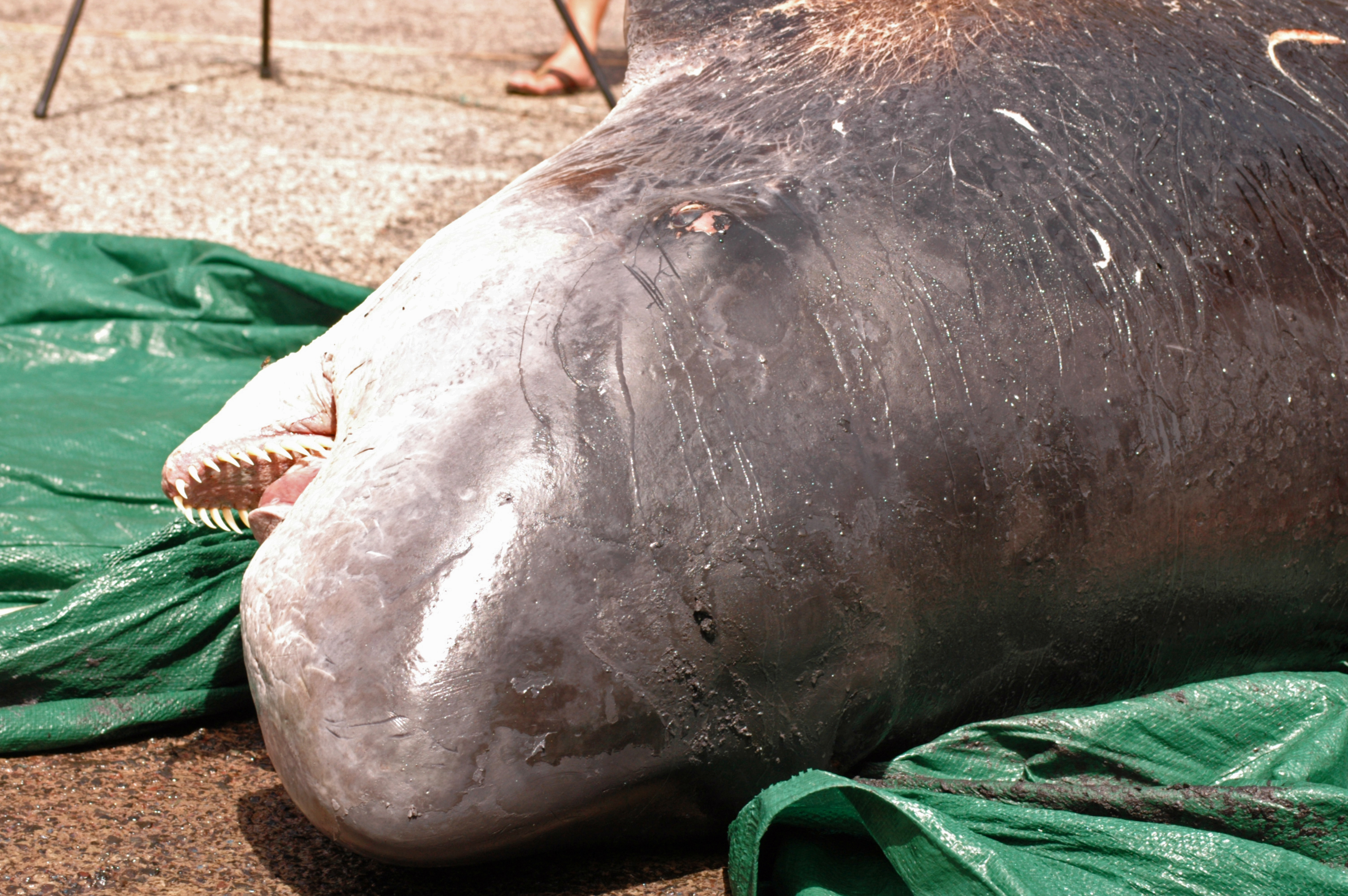 Pygmy sperm whale (dead)